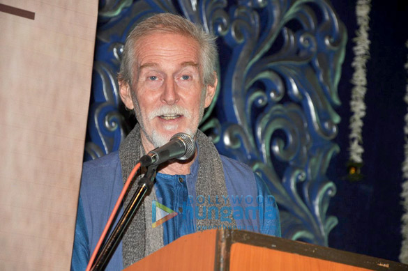 Veteran actor Tom Alter at ‘Legend Lives On’ – A tribute to Jagjit Singh concert